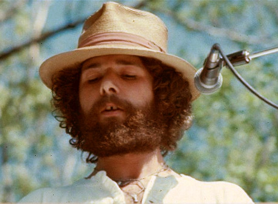 Taken at the Pinecrest Country Club, Shelton, CT.